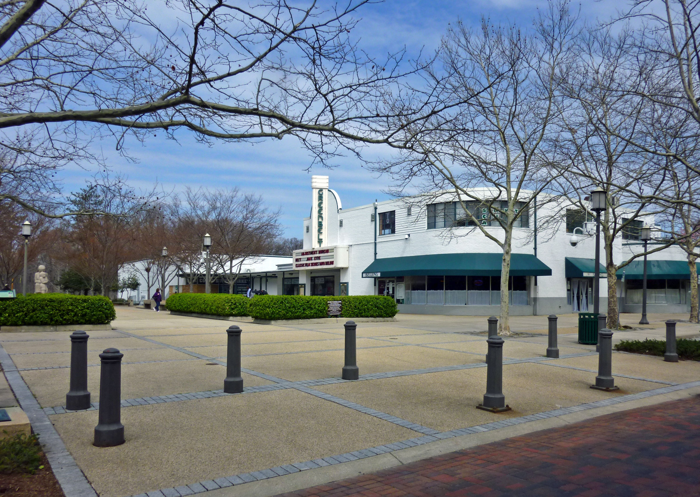 The historic retail & office town center in Greenbelt; originally opened in 1938 with all cooperative businesses.